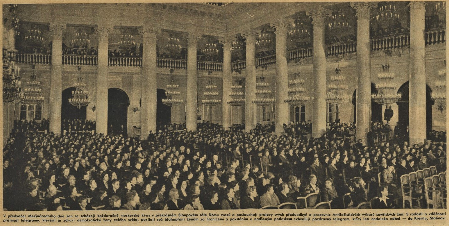 International Women's Day, Moscow 1948